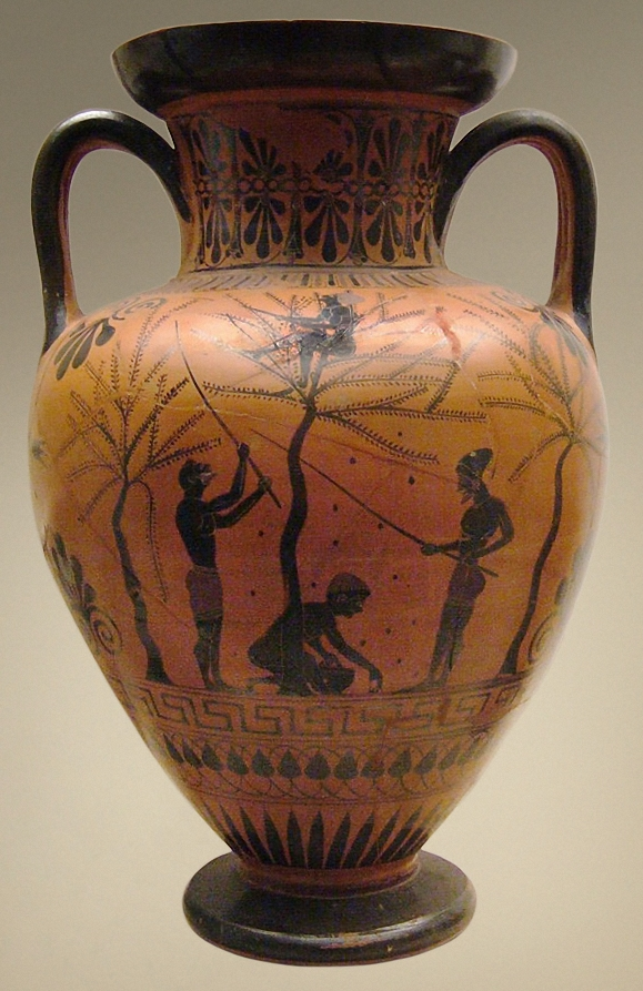 Scene of olive-gathering by young people. Attic black-figured neck-amphora, ca. 520 BC. From Vulci, Italy.